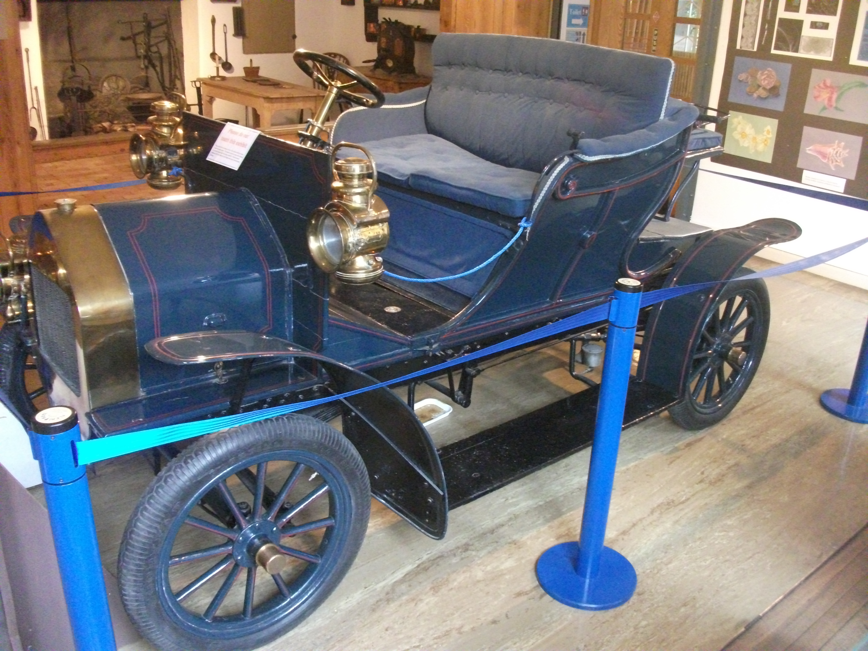 Adams Mail Phaeton car, made at Elstow Road in Bedford in 1907. On display at Bedford Museum.